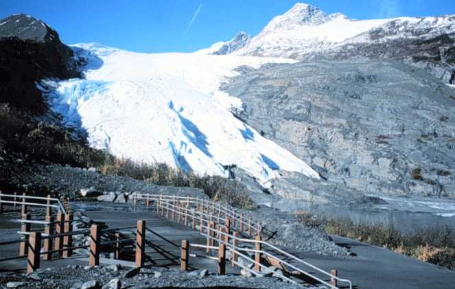 Worthington Glacier, Alaska